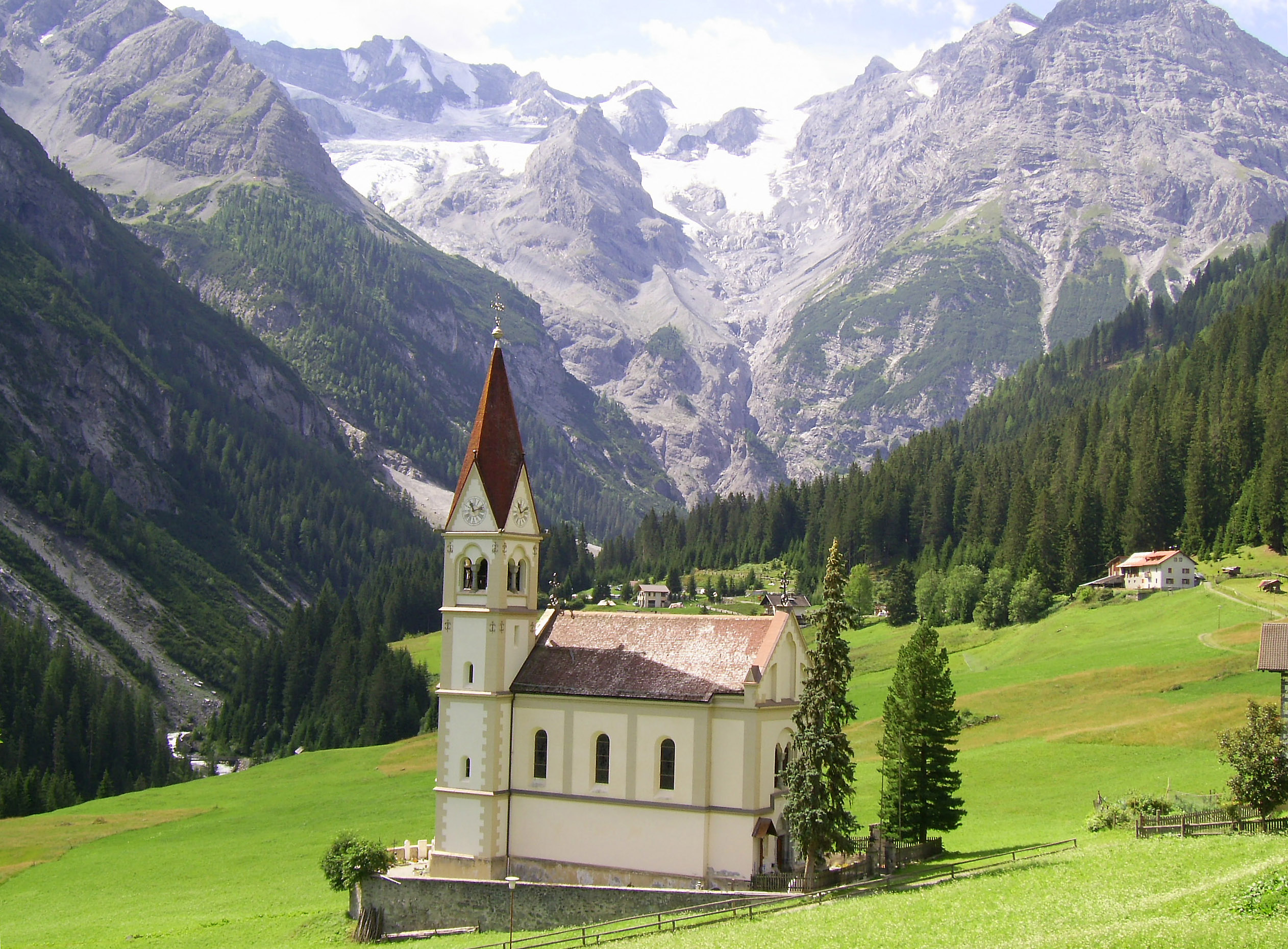 Church in Trafoi, a subdivision of Stilfs, South Tyrol